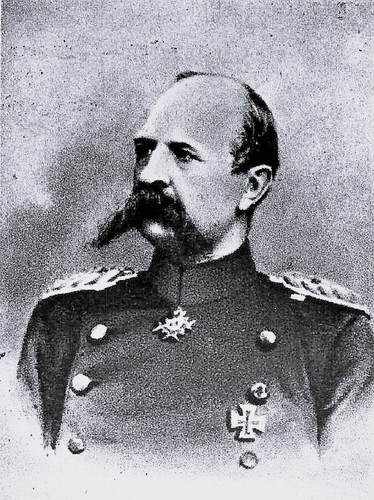 Oberst Zingler